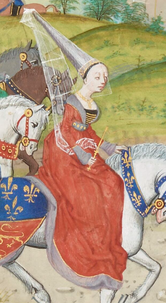 Detail of Jean Froissart's depiction of a meeting between Isabella of France, Queen of England, and her brother, Charles IV of France, in 1325. The work was produced around 1475.